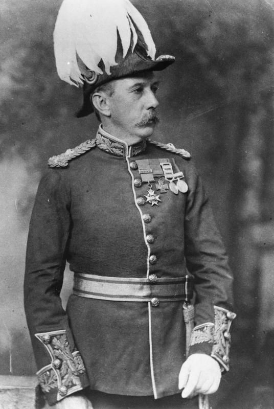 Victoria Cross Winners- Pre 1914. Portrait of George Nicholas Channer, awarded the Victoria Cross: Perek, Malay Peninsula, 20 December 1875.